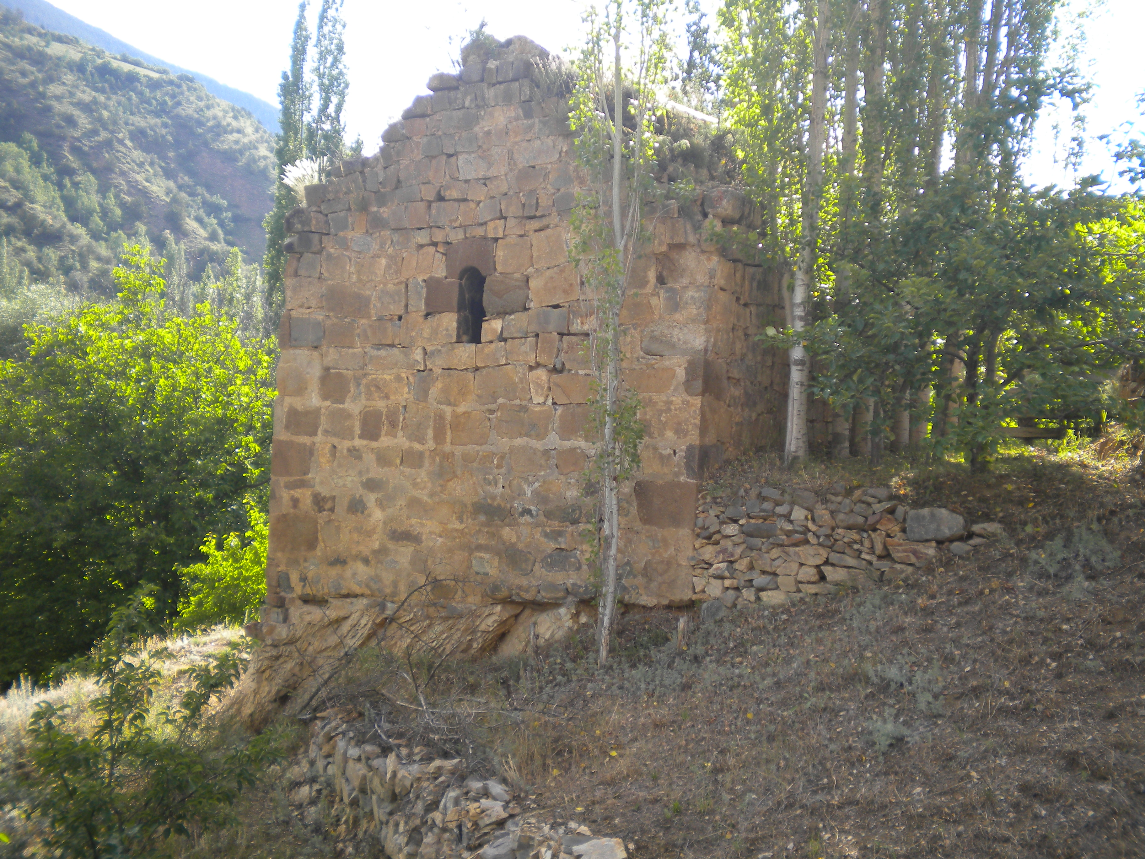 Norşin şapeli - ödük ,Tortum